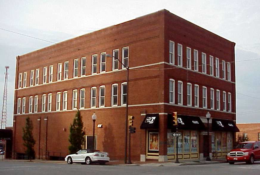 Pierce Block, 301 E. 3rd St., Tulsa, OK. Plains Commercial style building, built in 1909. Very few earlier buildings survived the building boom in Tulsa in the 1920's and 1930's. Listed on NRHP.